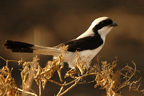 Uganda Grey-backed Fiscal (Lanius excubitoroides)